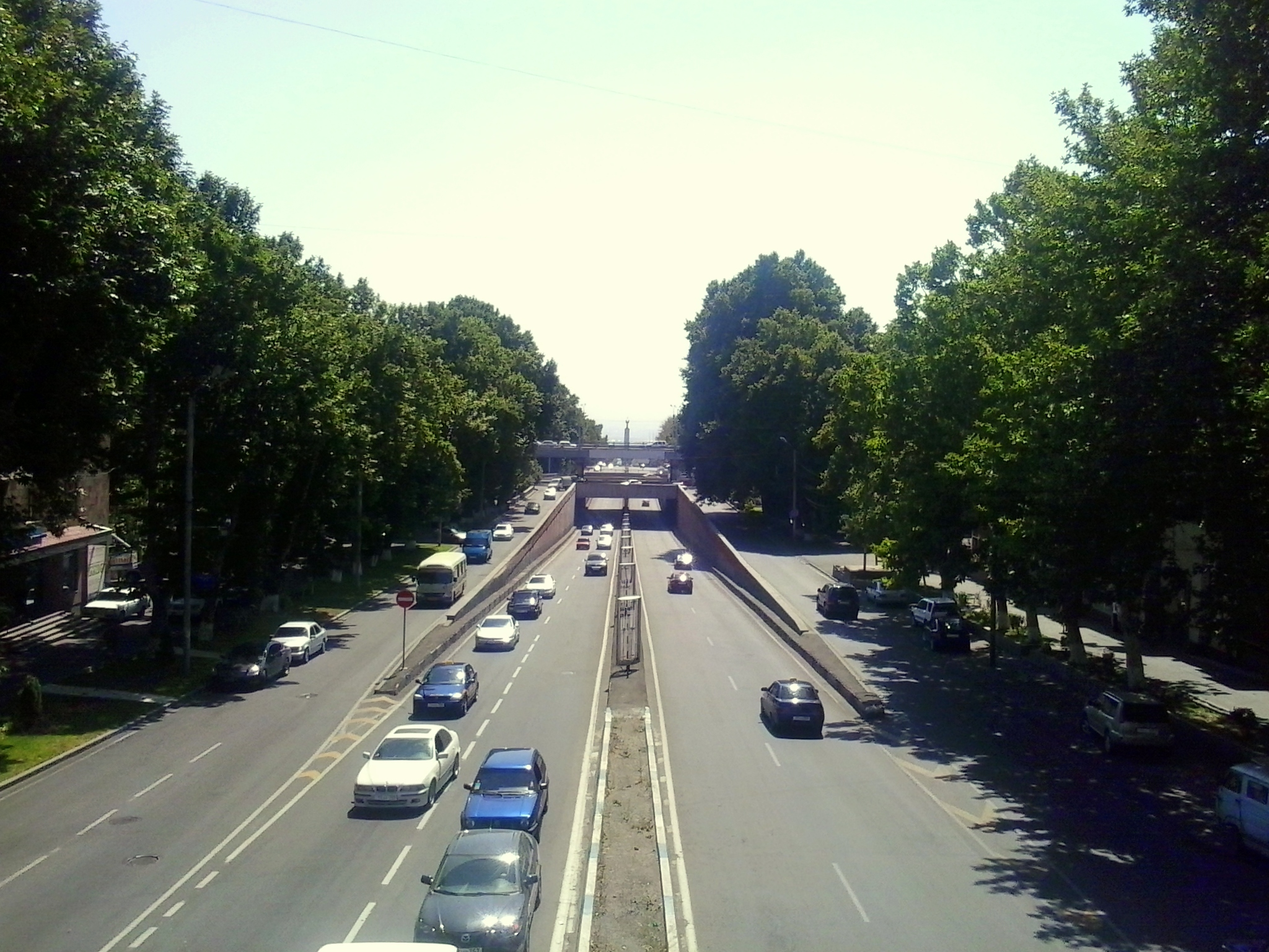 Liberty (Azatutyun) Avenue, Yerevan, Armenia.